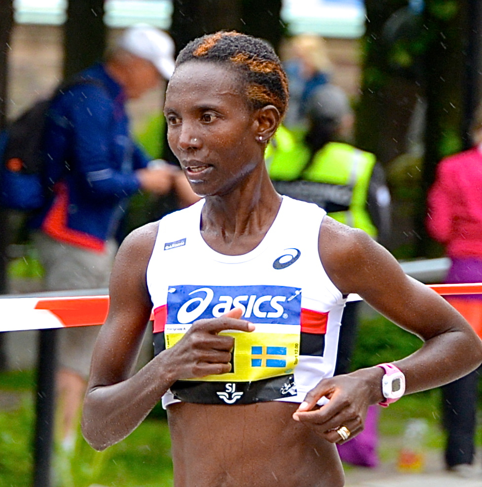 Isabella Andersson in Stockholm marathon June 1, 2013.